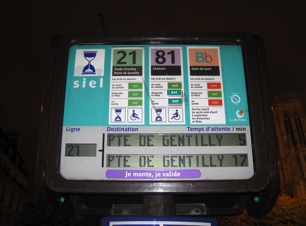 Bus stops in Paris